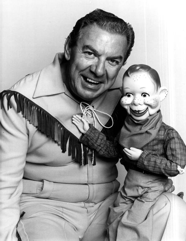 Portrait of Buffalo Bob Smith and Howdy Doody: Fort Lauderdale, Florida (from State Library and Archives of Florida).